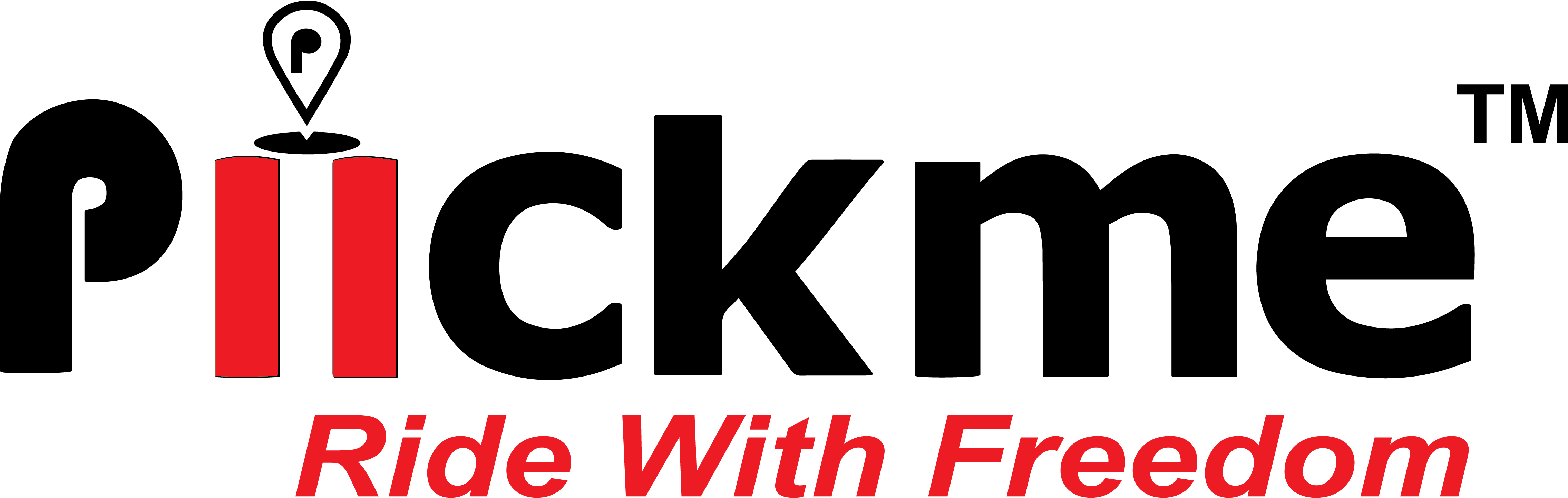 Piickme Ltd. is more than just a ride-sharing platform in Bangladesh. We utilize data and technology to improve everything from transportation to payments across a region of more than 166 million people in Bangladesh.